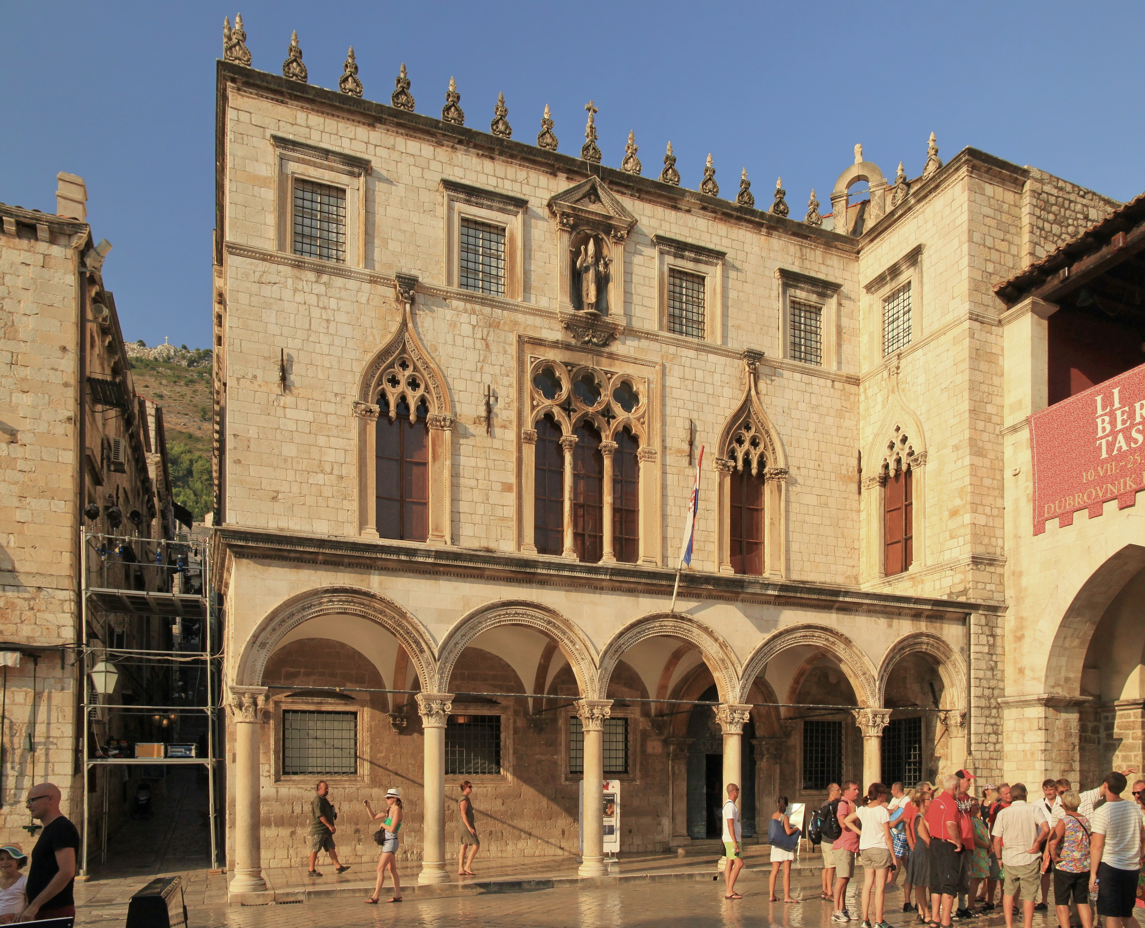 Sponza Palace. Dubrovnik, Dubrovnik-Neretva County, Croatia.